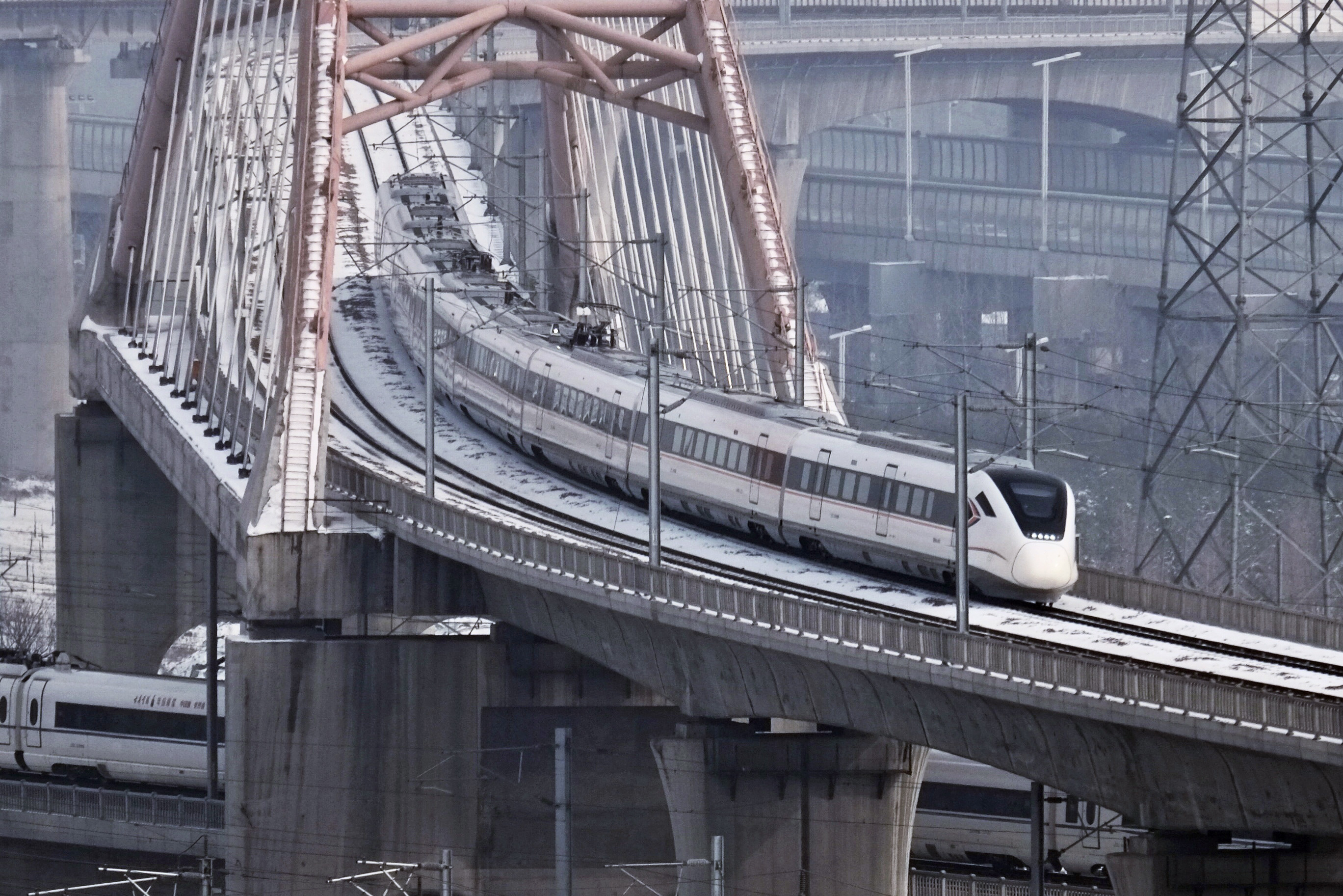 CRH6A-0428 approaching Zhengzhoudong